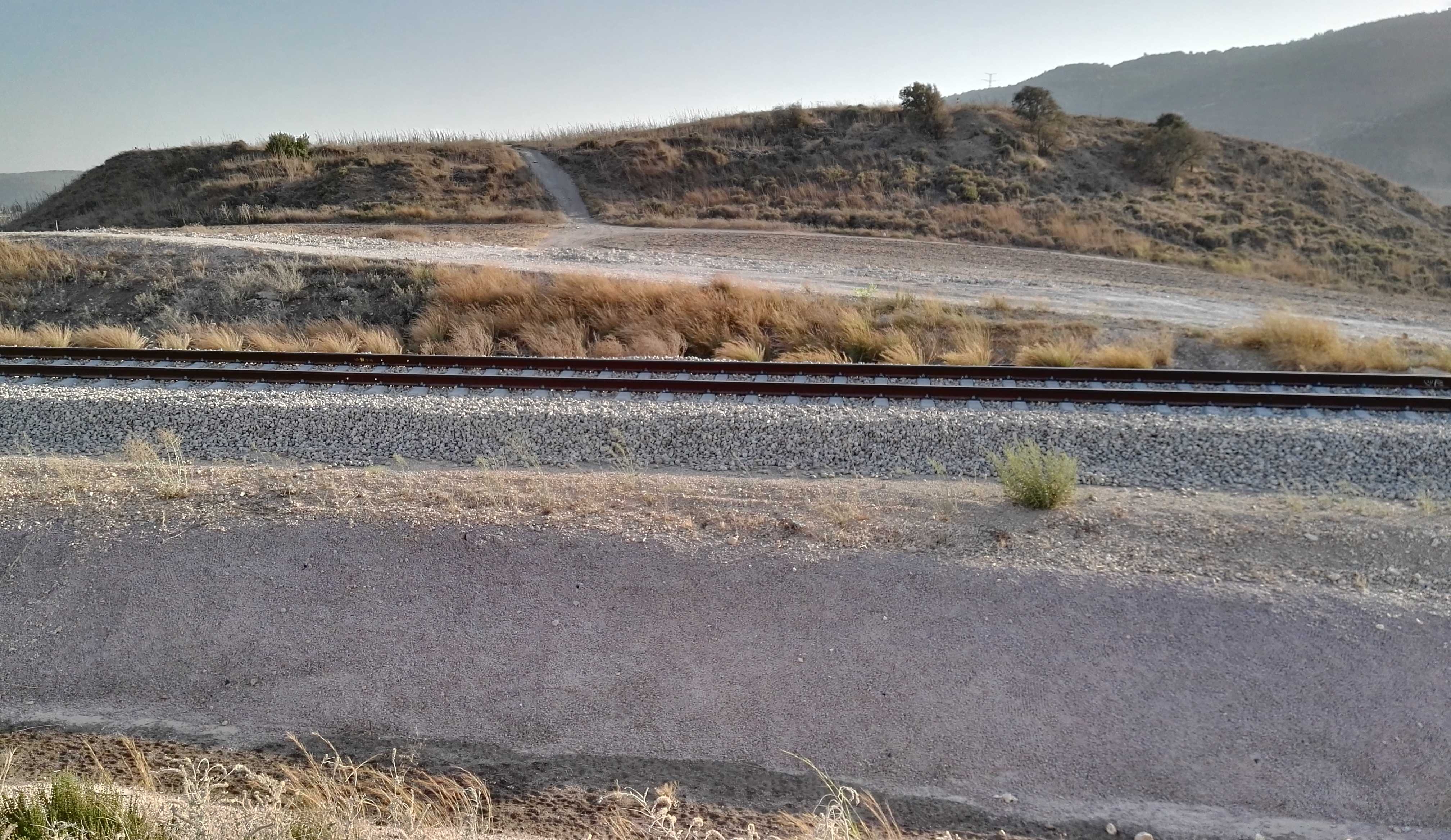 Tel Kashish near Kiryat Tivon, Israel.